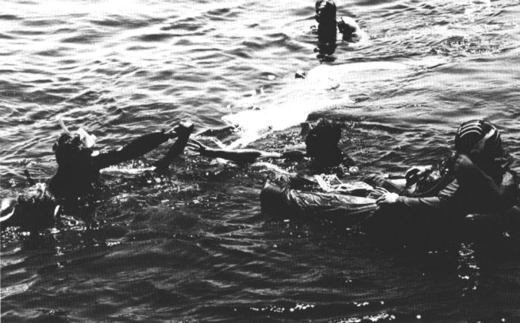 Filming of the movie "Top Gun" at Naval Air Station Miramar and NAS North Island, California (USA), in 1985. Here, a dummy represents Radar Intercept Officer Nick "Goose" Bradshaw (Anthony Edwards) who died after an ejection from an Grumman F-14A Tomcat fighter. During the filming of this scene, actor Tom Cruise becam entagled in his parachute and almost drowned before he was rescued by U.S. Navy divers Aviation Electronics Technician 1st Class John Buttler and Aviation Ordnanceman 2nd Class Daryl Silva.